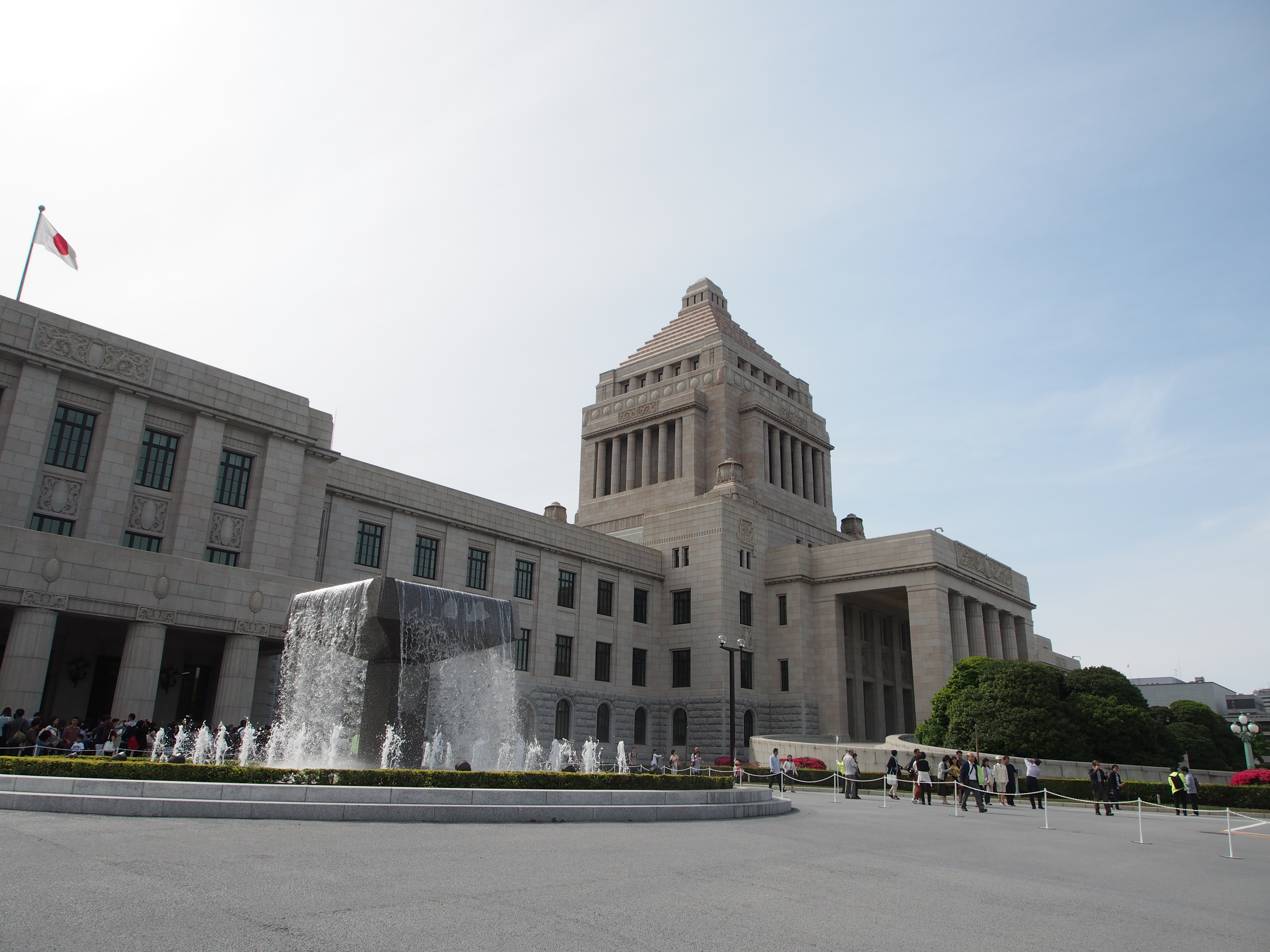 Outside of the building of the National Diet of Japan. Photographed on Open House day of the House of the Representative for the 70th Anniversary of the Enactment of the Constitution .